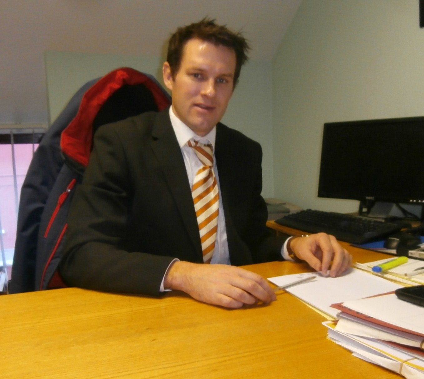 Eoin Brosnan is a partner with his father in the firm, Niall Brosnan and Company, Solicitors, of St Anthony's Place, College Street, Killarney and also of Kenmare.